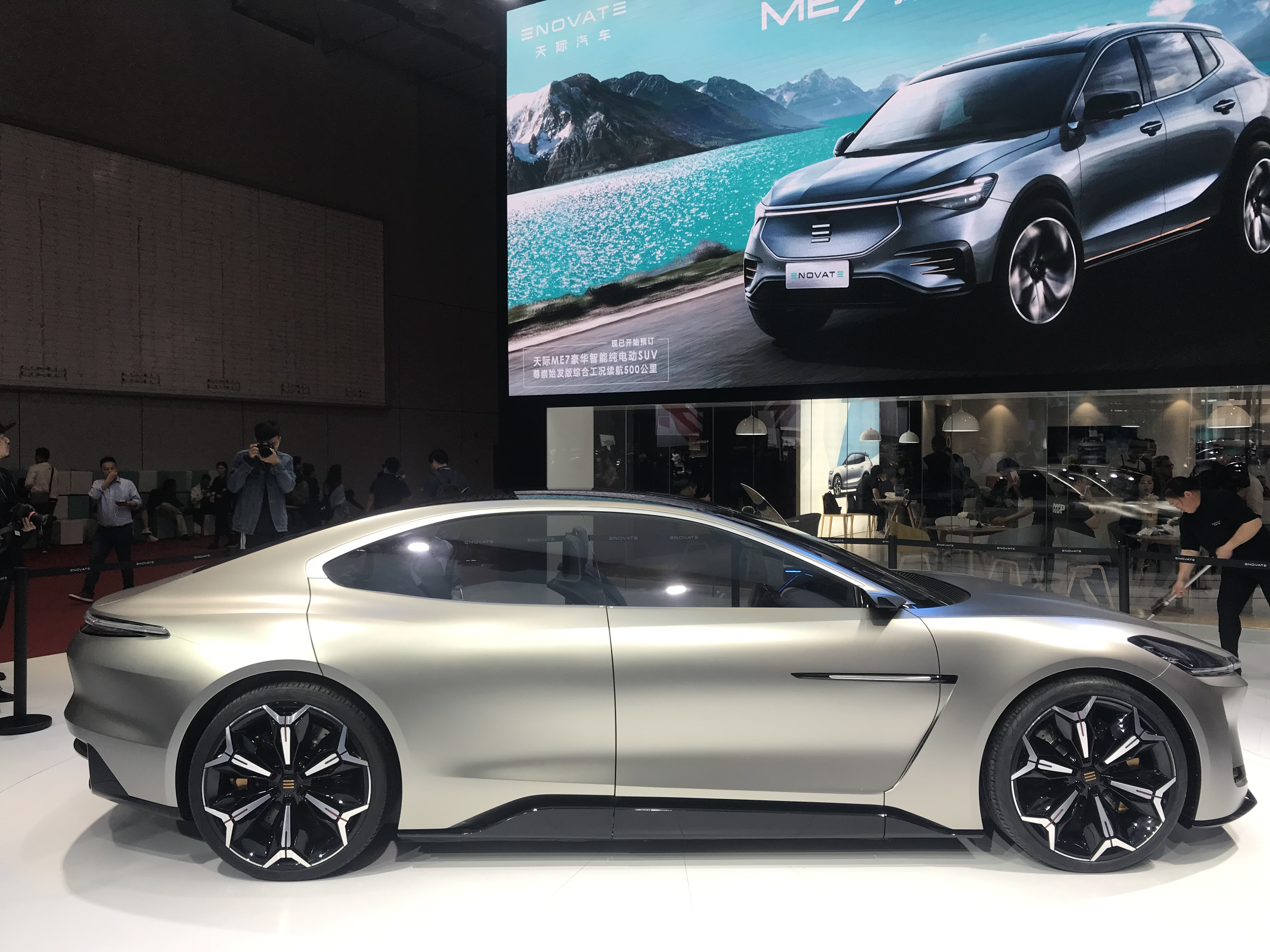 Enovate ME-S side